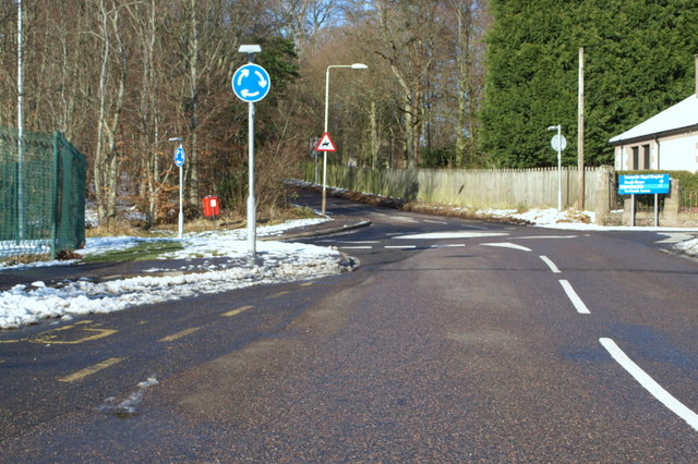 Hospital Road Hillside, Montrose at its junction with the south entrance to Sunnyside Royal Hospital